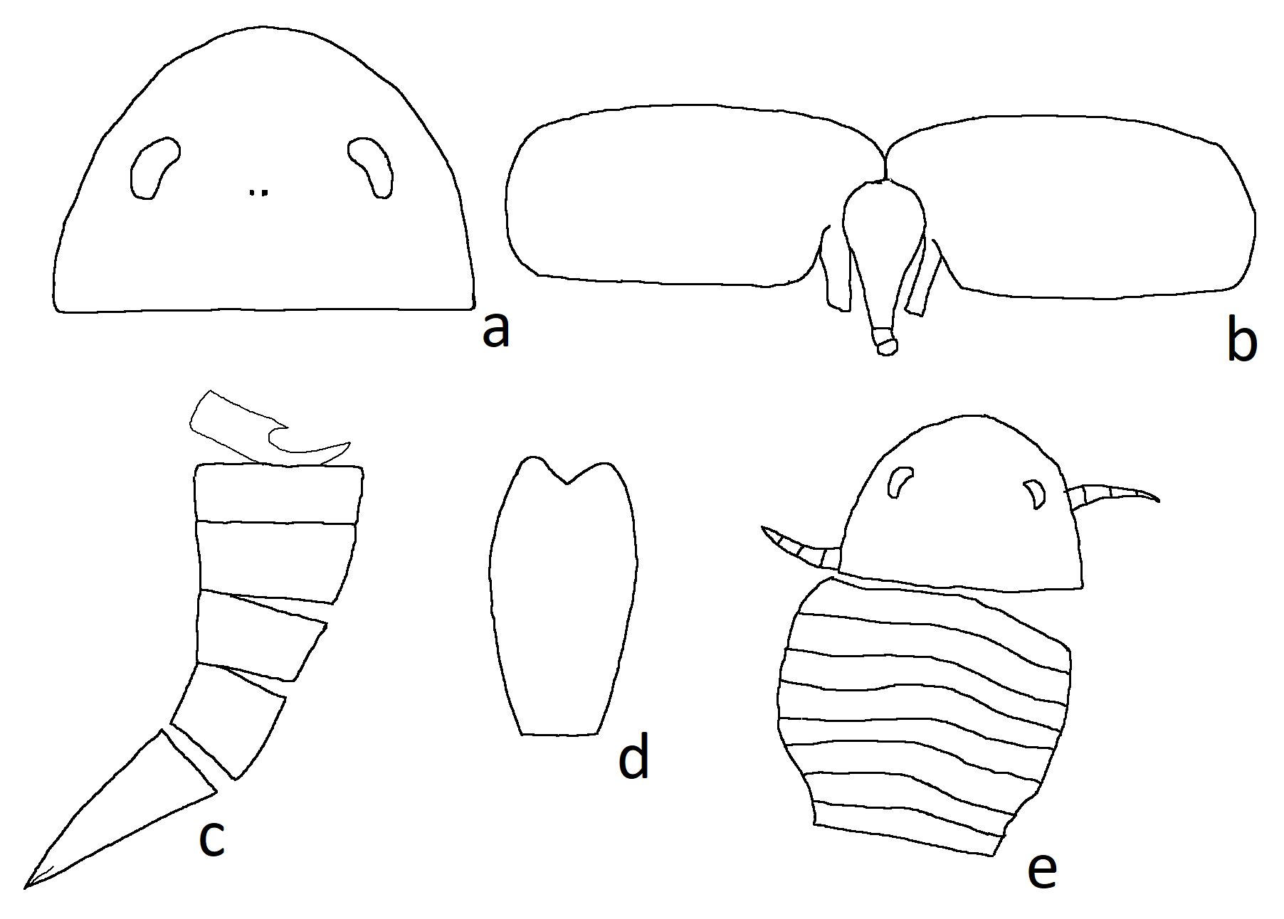 Restoration of fossils used for the original description of the eurypterid species Parahughmilleria salteri. a, carapace. b, holotype, nearly complete operculum with female genital appendage. c, paratype. Metasomal tergites and telson. d, metastoma. e, paratype. Specimen with carapace, complete mesosoma and anterior tergites of the metasoma. Based on Kjellesvig-Waering, 1961.